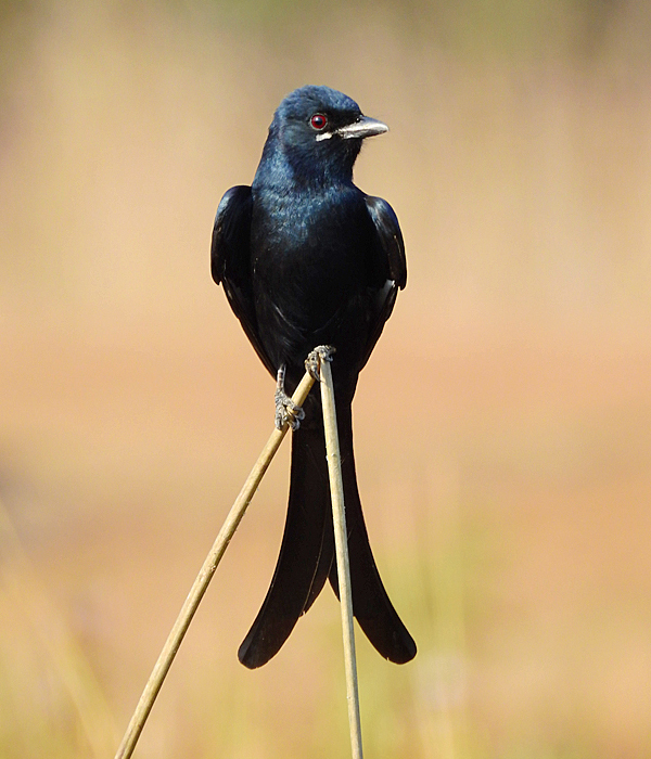 Black drongo (Dicrurus macrocercus) Photograph by Shantanu Kuveskar Location : Mangaon, Raigad, Maharashtra, India